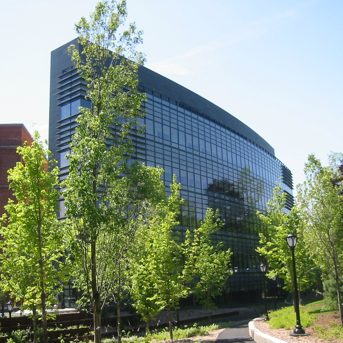 The Daniel L. Malone Engineering Center at Yale University